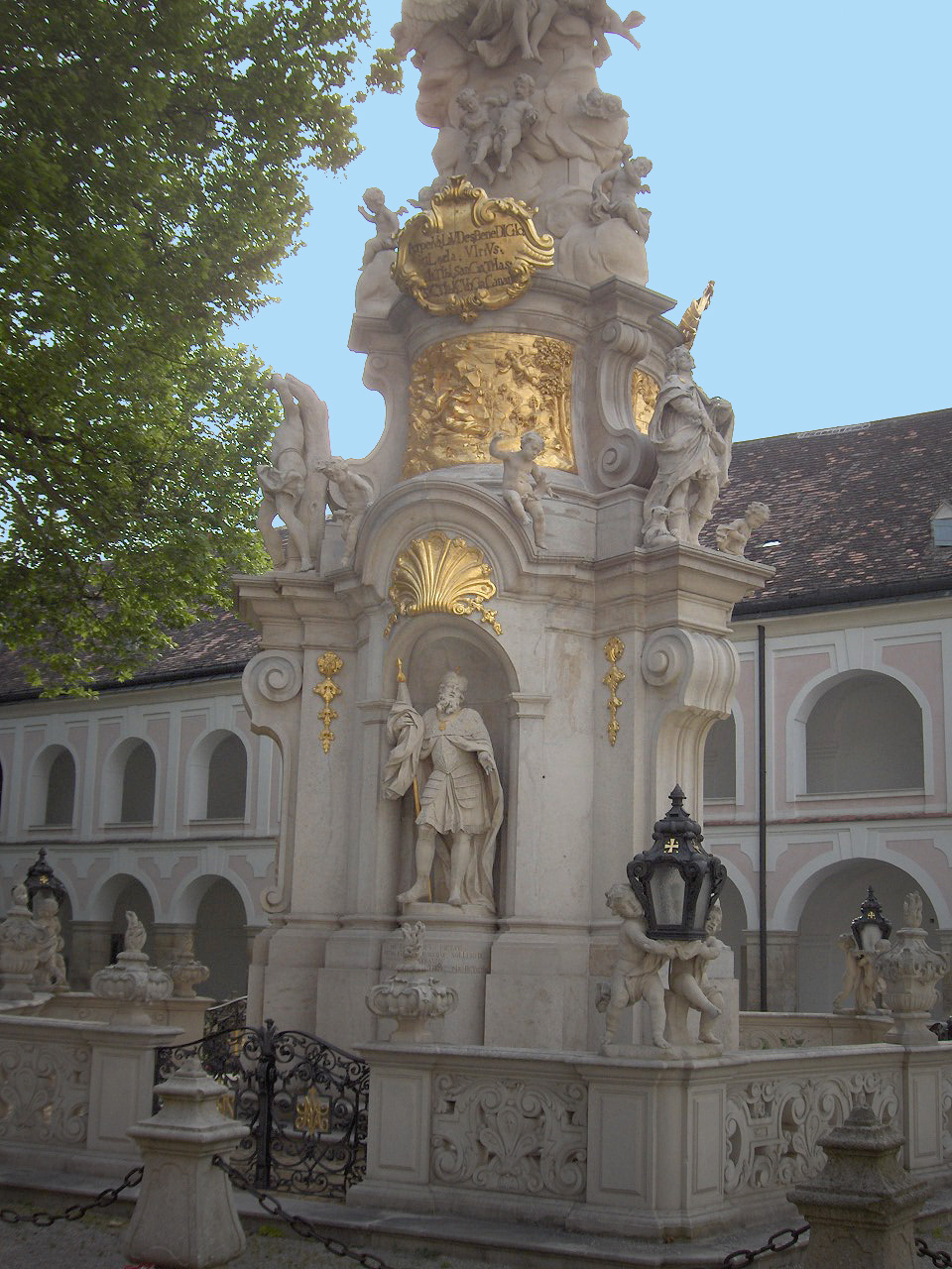 close-up of the Trinity column at Heiligenkreuz Abbey near Baden bei Wien, Lower Austria